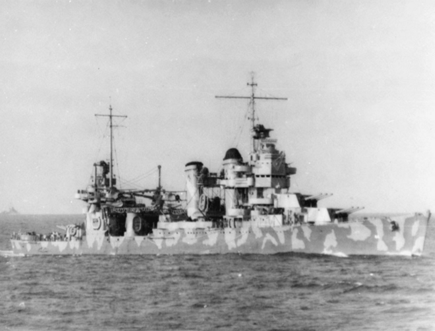 The U.S. Navy New Orleans-class heavy cruiser USS Vincennes (CA-44) en route to Guadalcanal in August 1942.